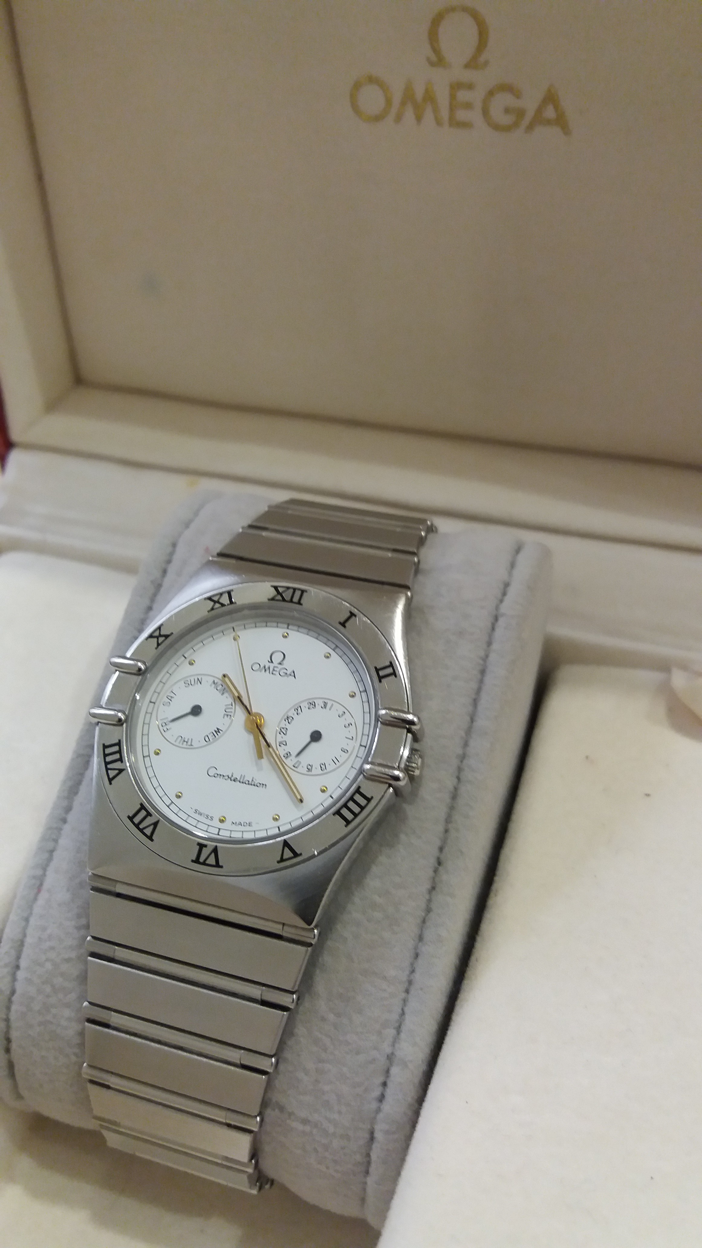 Unique Omega Constellation day-date , of 1980's generation with quartz movement, that was known as "Manhattan"